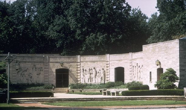 Lincoln Boyhood National Memorial, The Memorial Building, completed in 1943.